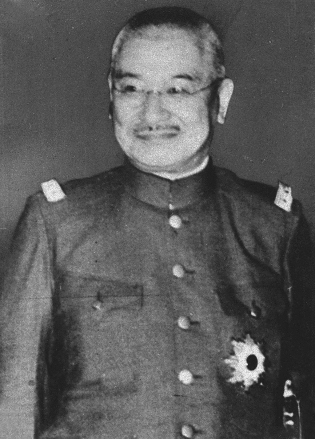 Portrait of Abe Nobuyuki (阿部信行, 1875 – 1953)